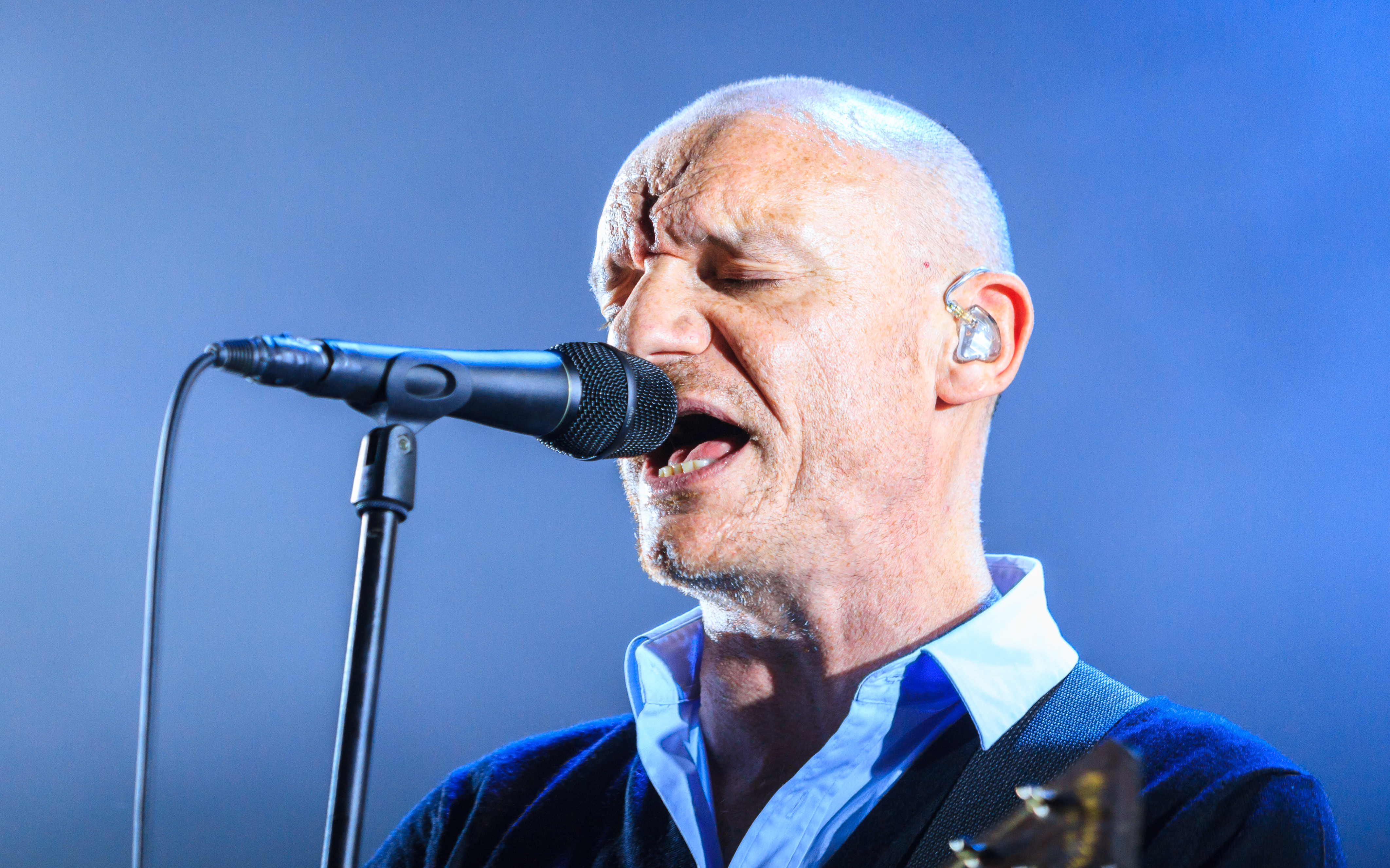 The singer Gaëtan Roussel at the concert of Louise attaque, Pause Guitare 2016.